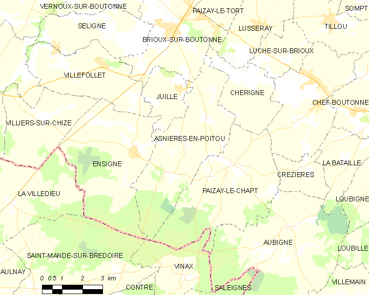 Map of French municipality Asnières-en-Poitou